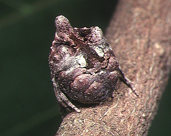 female Poltys illepidus from Okinawa.